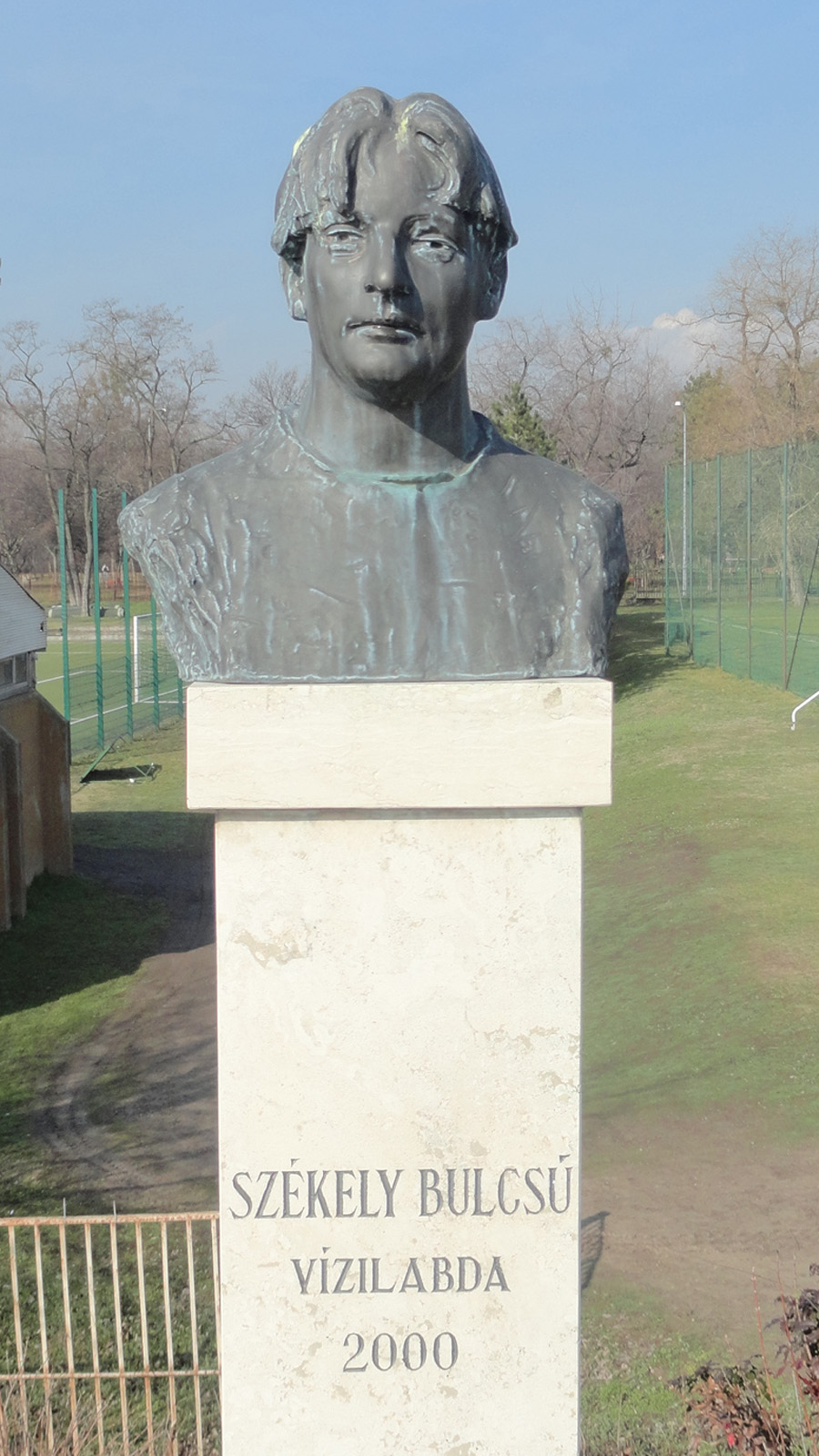 Bulcsú Székely, Hungarian water polo player. 2000 Summer Olympics - Gold Medal Winner